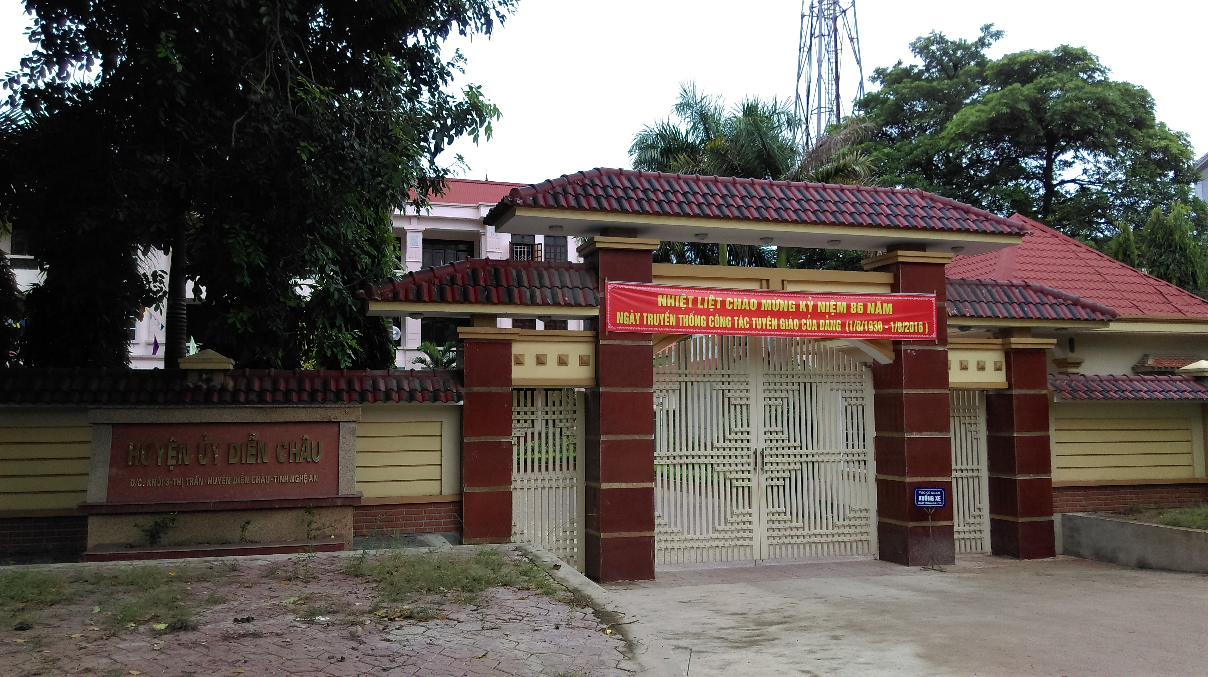 Dien Chau District People's Committee